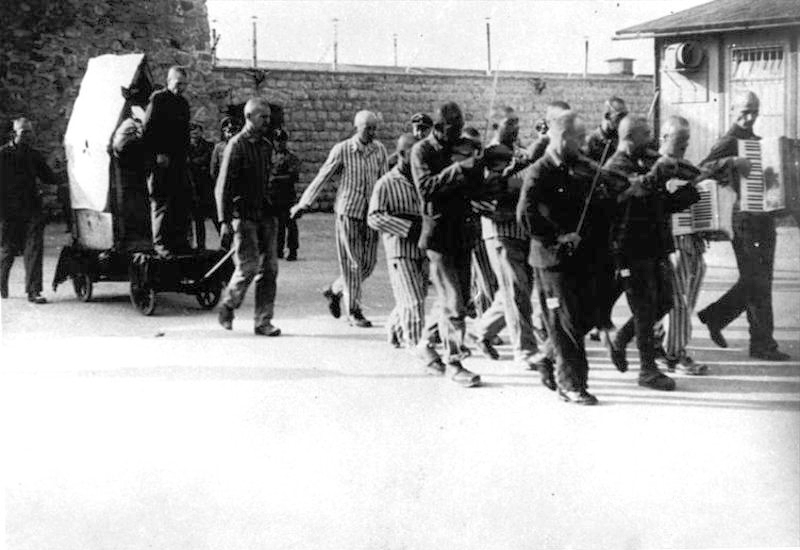 Information added by Wikimedia users.Inmate Hans Bonarewitz pulled on cart with crate inside which he attempted to escape. The camp orchestra under participation of Wilhelm Heckmann had to continuously play the song "J'attendrai ton retour" (I shall wait for your return). Another song, the traditional German children's song "Alle Vögel sind schon da" (All the birds are back again) was played immediately before execution. Following the execution of Bonarewitz, the "Polka of the beer barrel" was played. This information was supplied by Aitor Fernández-Pacheco, Paris, maker of the documentary film "Mauthausen, una mirada Española" who interviewed the former Spanish prisoner Mario Constante for his documentary.